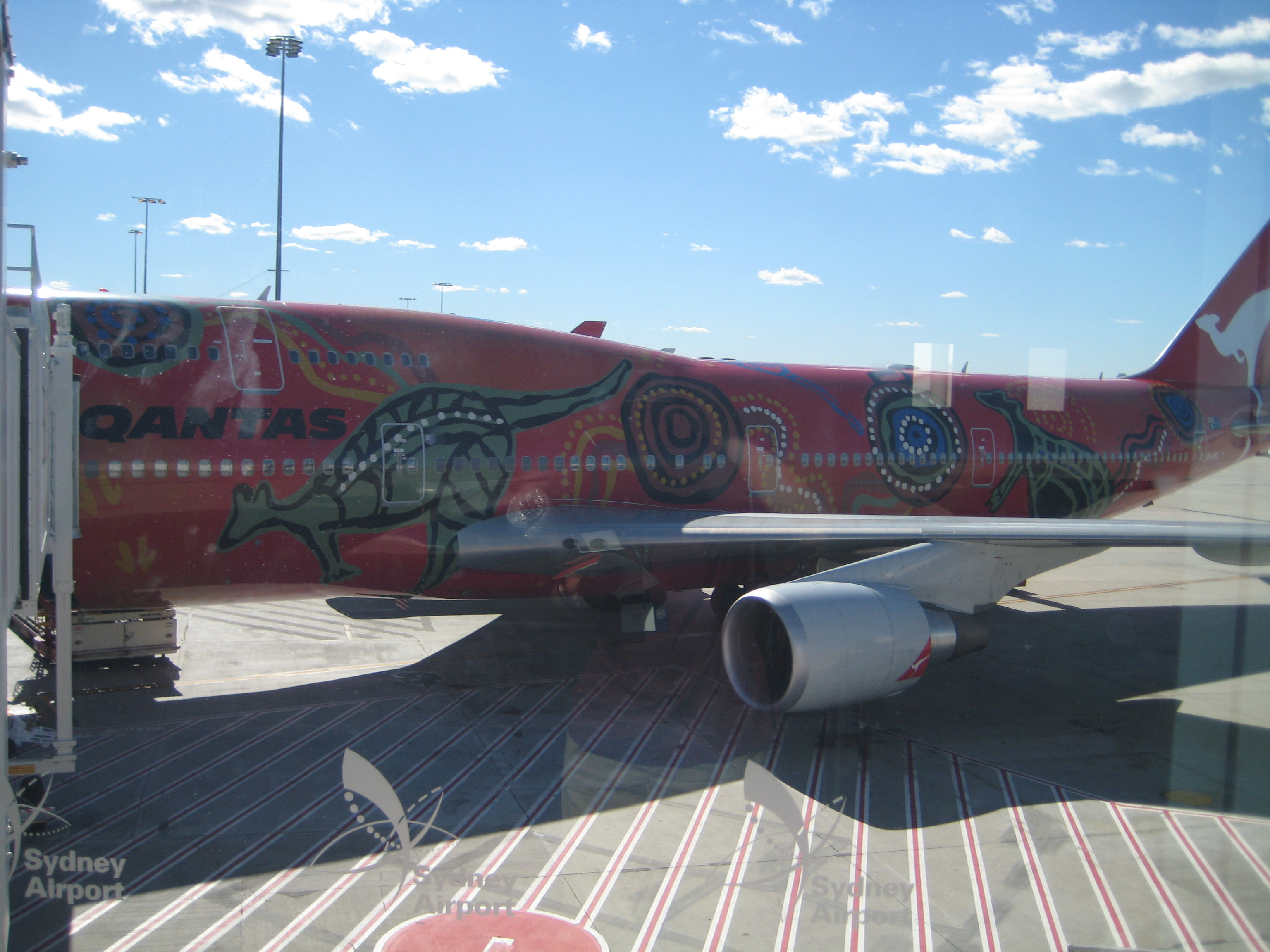 Special Qantas livery "Wunala Dreaming"